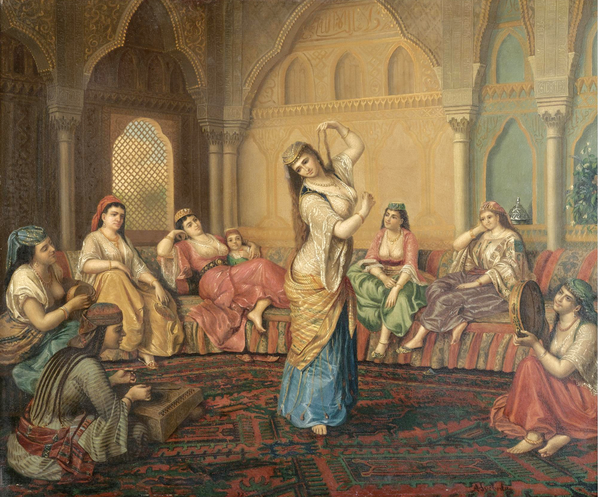 The Harem Dancer